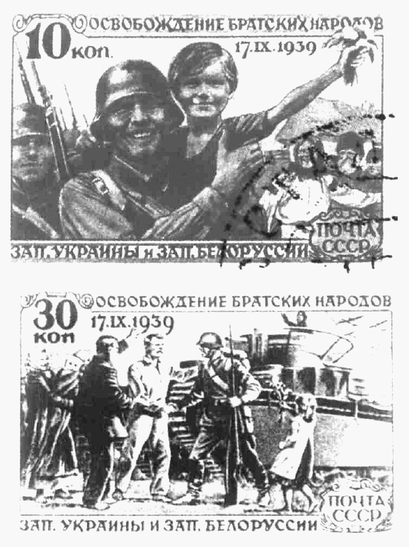 USSR 2 stamps (1940): Liberation of Western Ukraine and Western Belorussia on 17th of September, 1939, 10 and 30 kopecks.